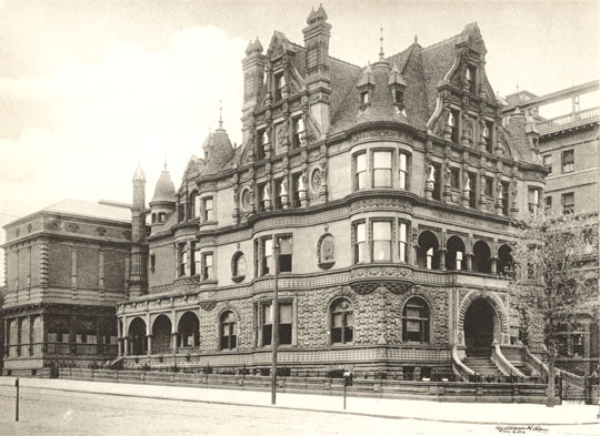 Peter A. B. Widener mansion, Broad Street and Girard Avenue, Philadelphia, Pennsylvania (1887), Willis G. Hale, architect. Widener donated the mansion to the Free Library of Philadelphia in 1899, which used it as a branch library from 1900 to 1946. It burned in 1980, and was demolished.